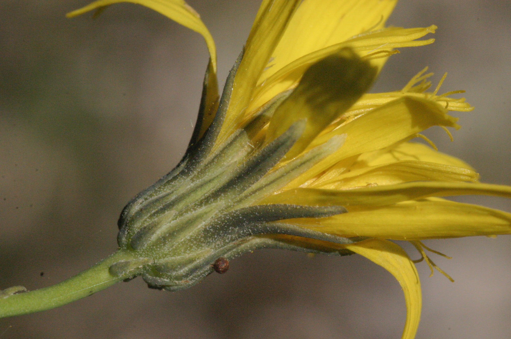 Hieracium porrifolium